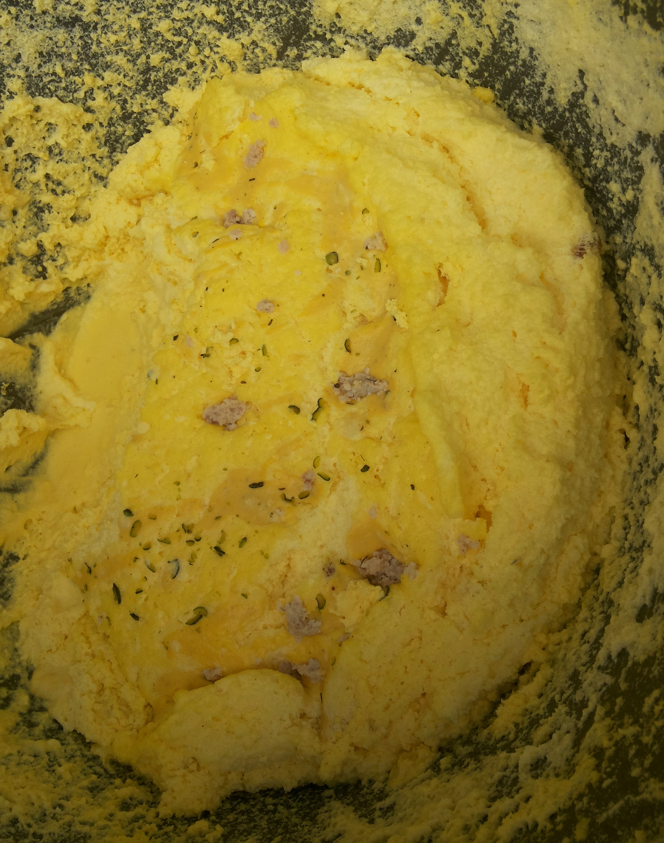 from Varanasi